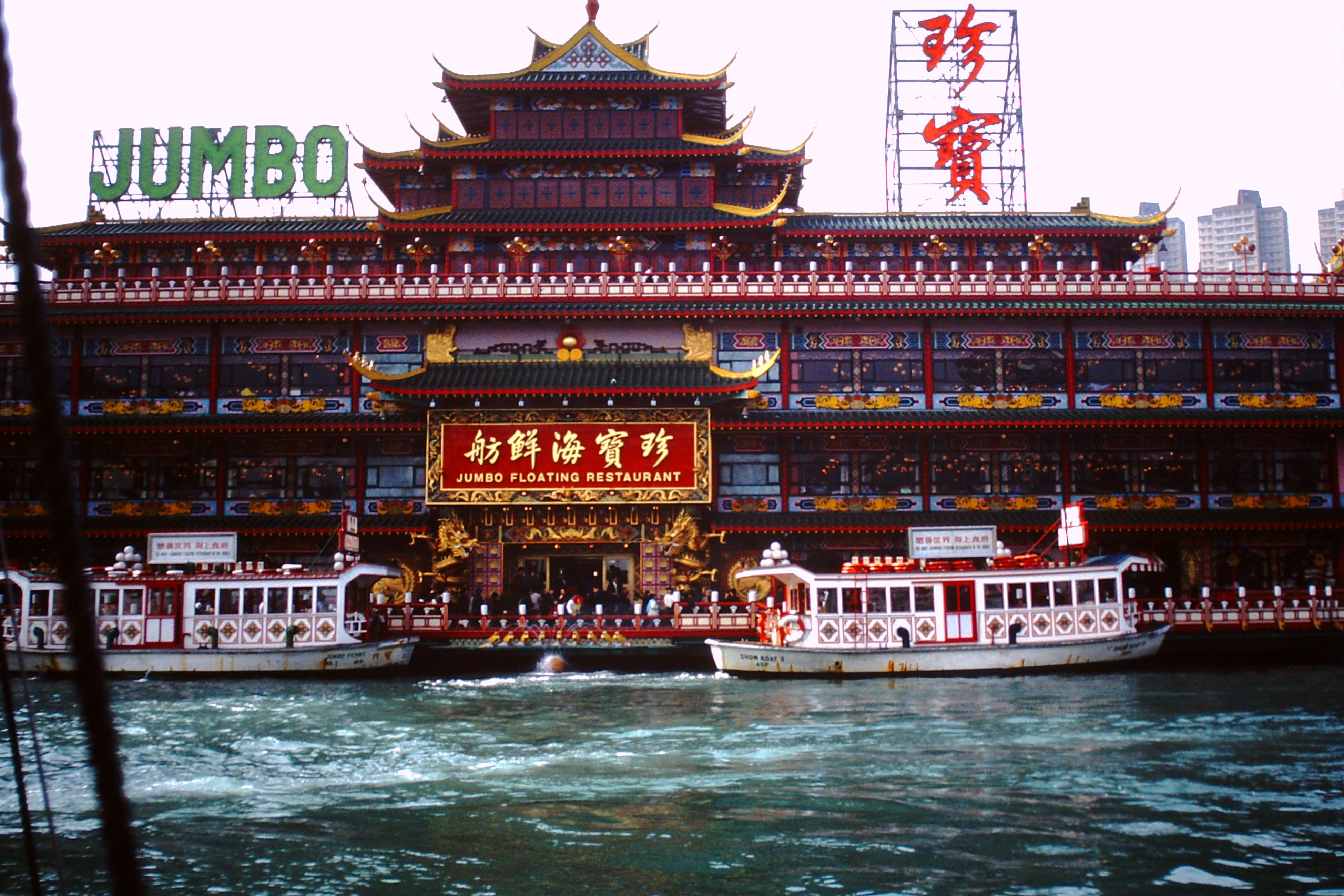 Floating restaurant Jumbo, in Aberdeen Harbour, Hong Kong. Photo taken 1985 from the waterside with a miniature camera Minox 35 PL. This photograph was taken with an analogue camera and digitized with a scanner.